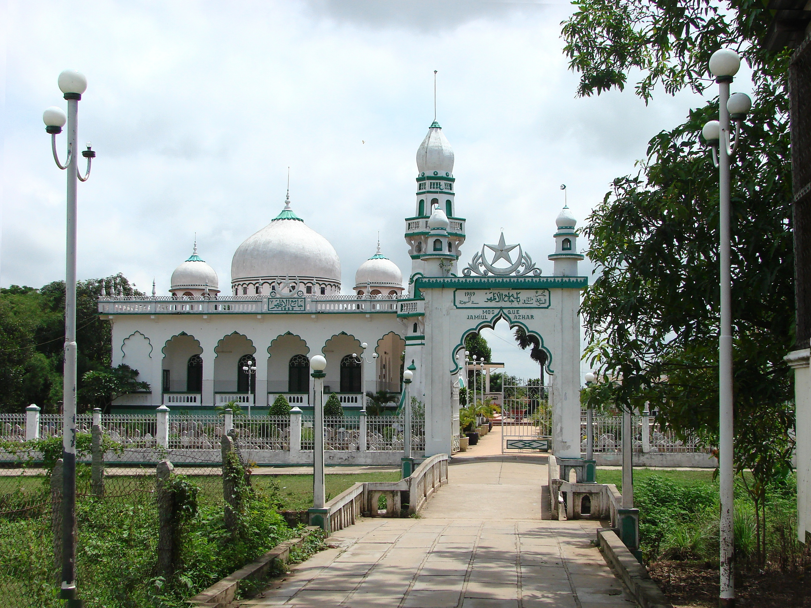 Mosque Jamiul Azhar in Châu Phong, Tân Châu town, An Giang province, Vietnam. July 2009.